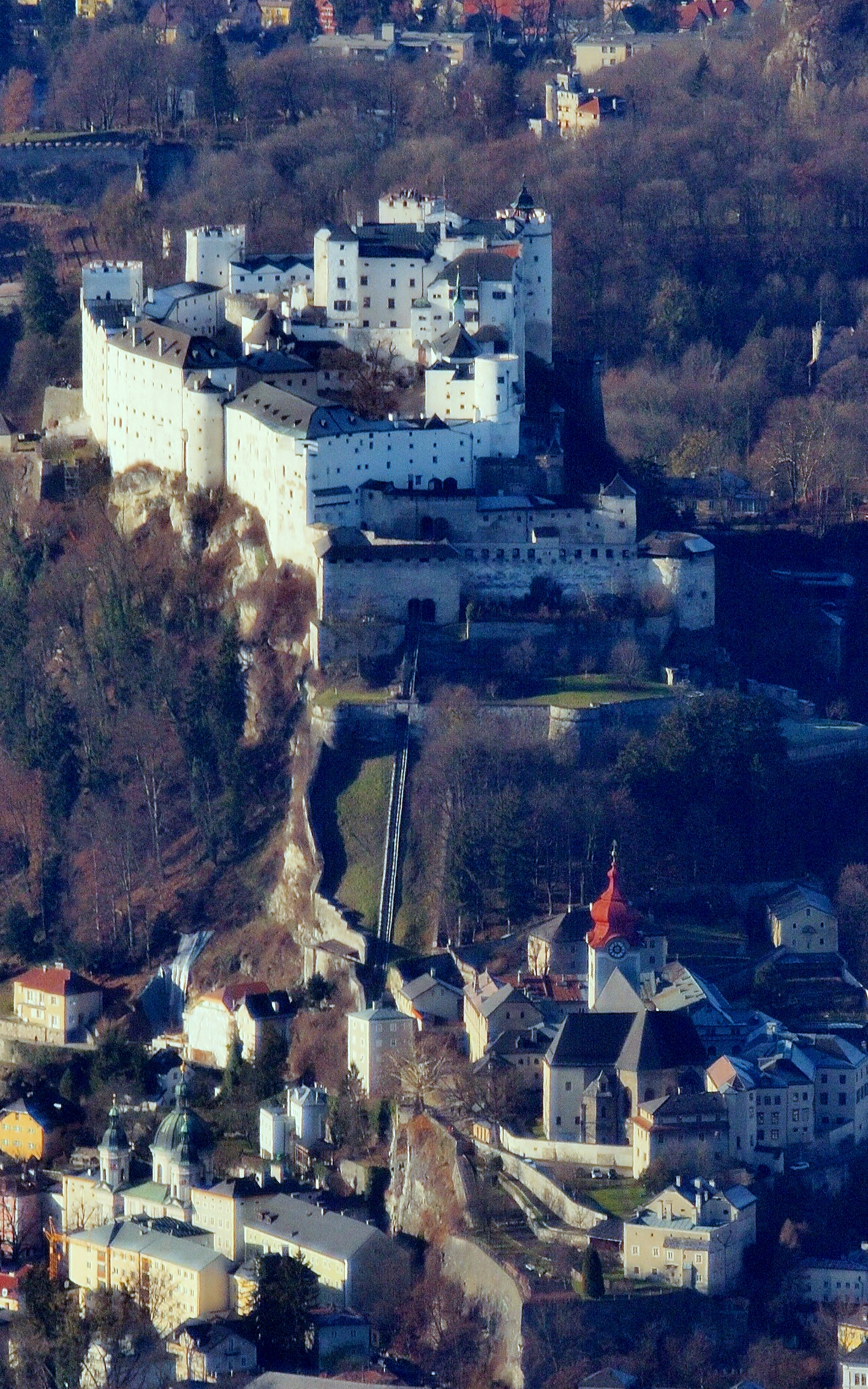 The Hohensalzburg Castle in Austria, showing the route of the historic Reiszug funicular. The lower route is picked out by two parallel vertical walls, whilst the gateways on the upper route can just be seen. For more information, please see the Wikipedia article Reiszug.